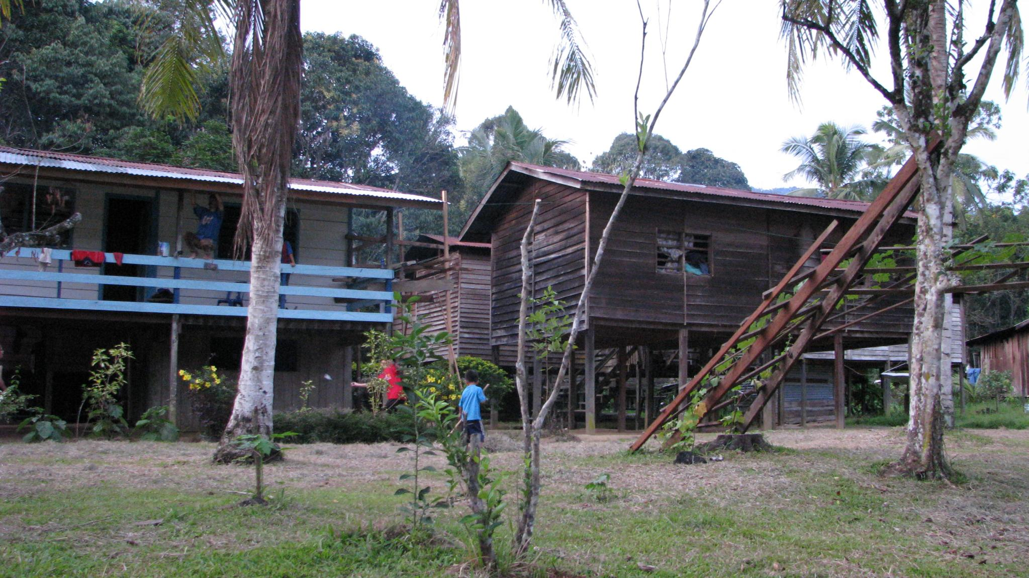 Houses in Long Kerong (2)